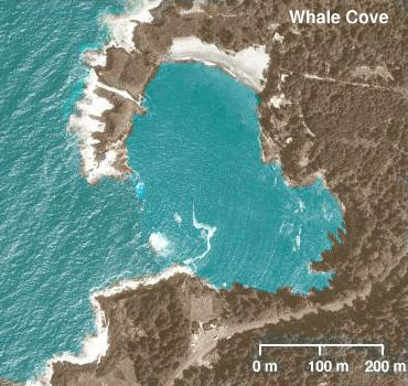 Whale Cove